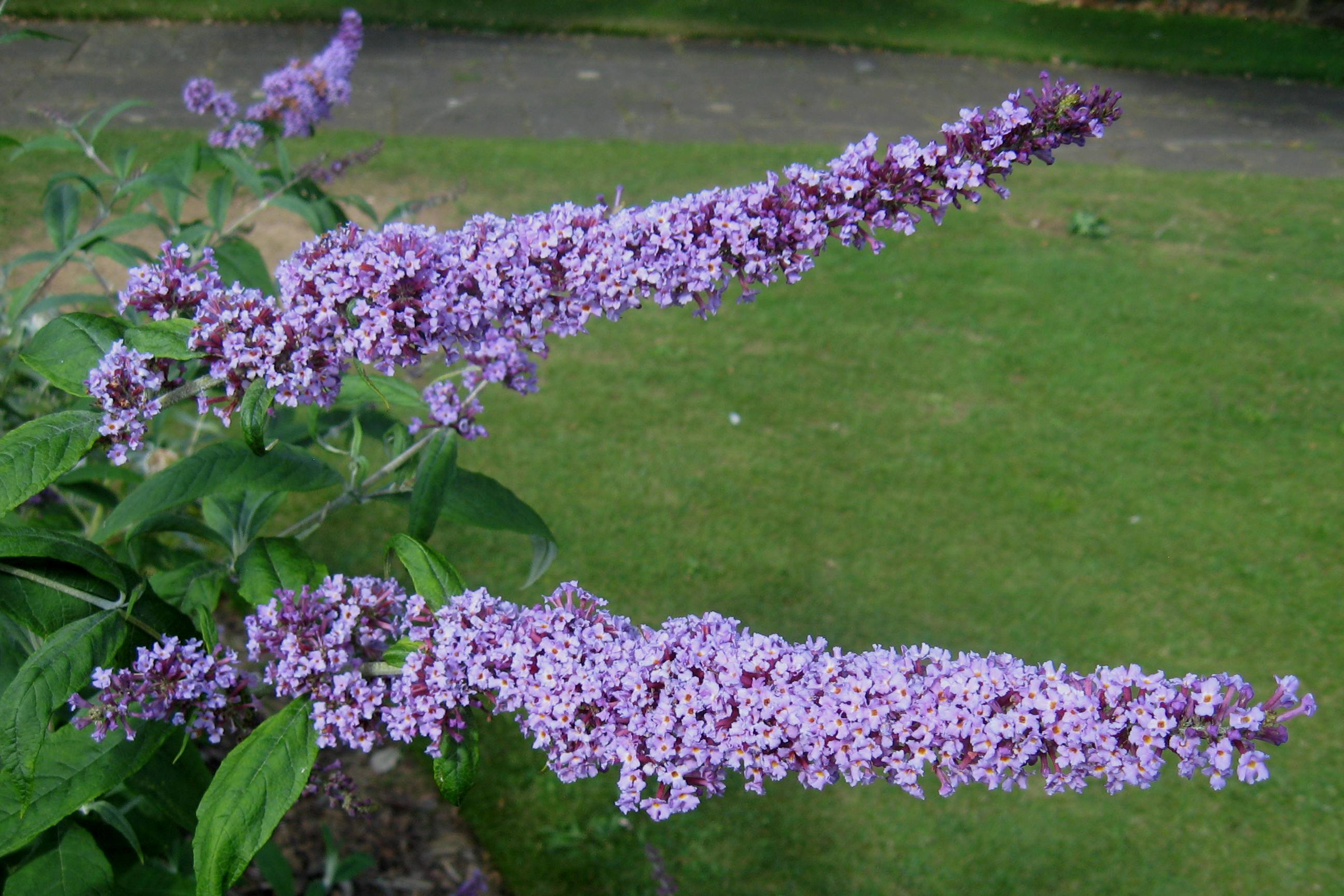 Photo of panicles of Buddleja cultivar 'Operette' taken at Longstock Park, UK, August 2012